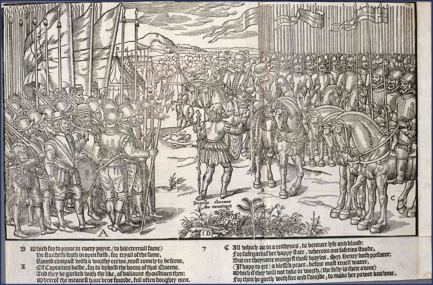 A plate originally from The Image of Irelande, by John Derrick, published in 1581. This image was taken from this Edinburgh University Library website - [1], with the description - "The English army is drawn up for battle, while Sidney himself parleys with a defiant messenger from the Irish".